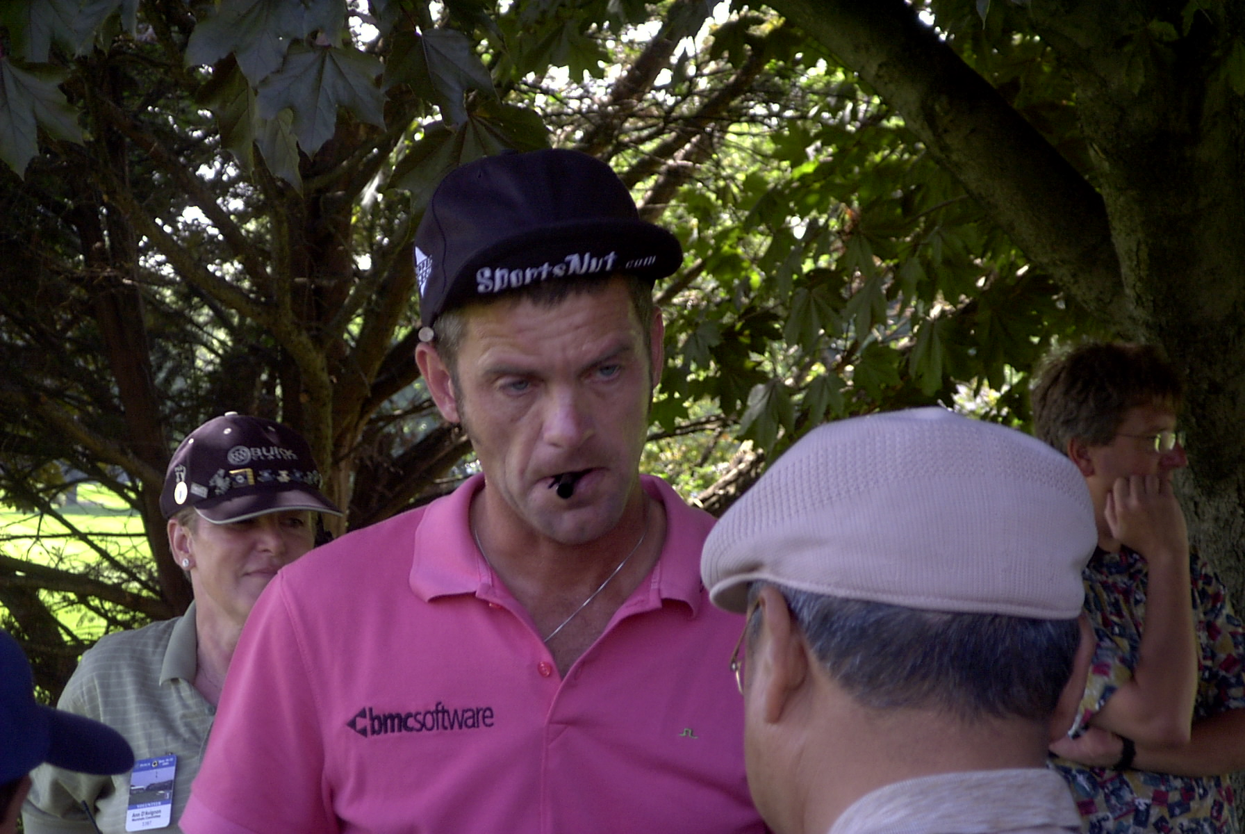 A photograph of Jesper Parnevik signing an autograph at Westchester Country Club